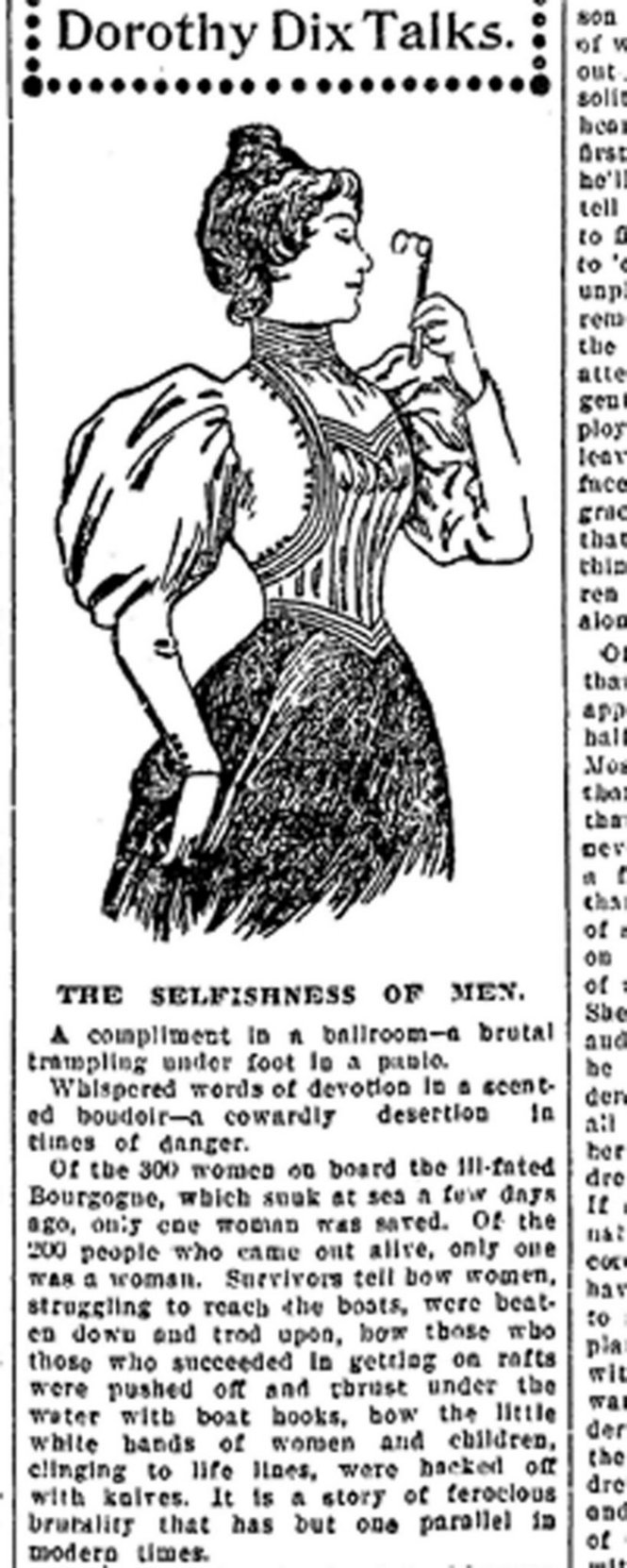 Illustrated 1898 column by Dorothy Dix, from The Picayune, New Orleans